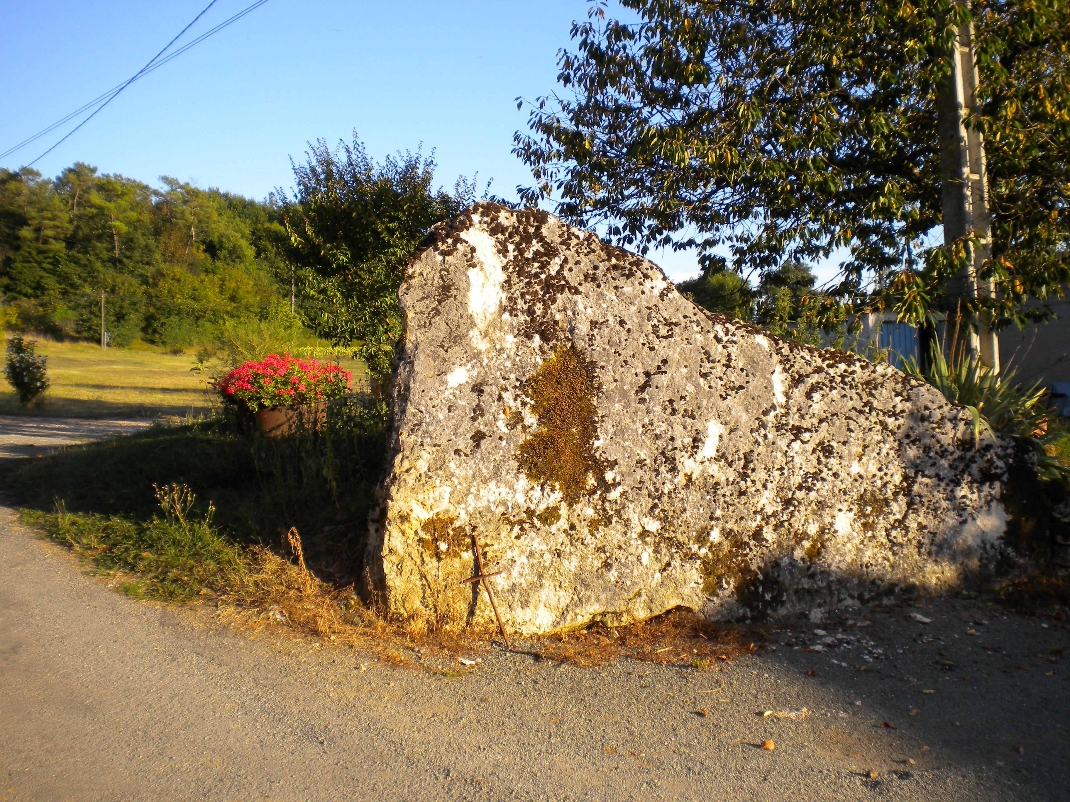 The menhir in the hamlet of Fouret, commune of Condat-sur-Trincou, Dordogne, France. The megalithic remain has been somewhat abused.